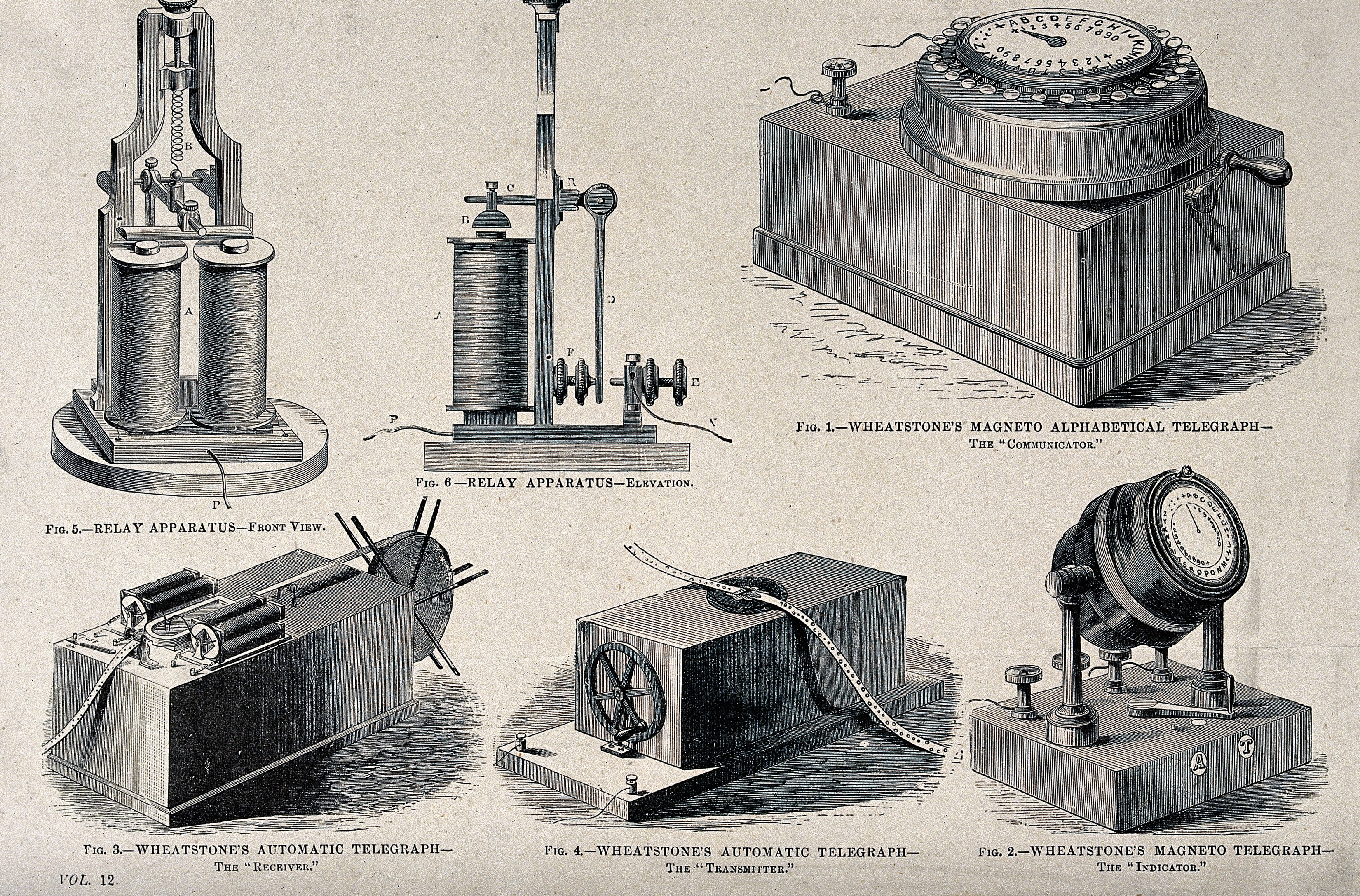 Components of the electromechanical telegraph network. Process print. Iconographic Collections